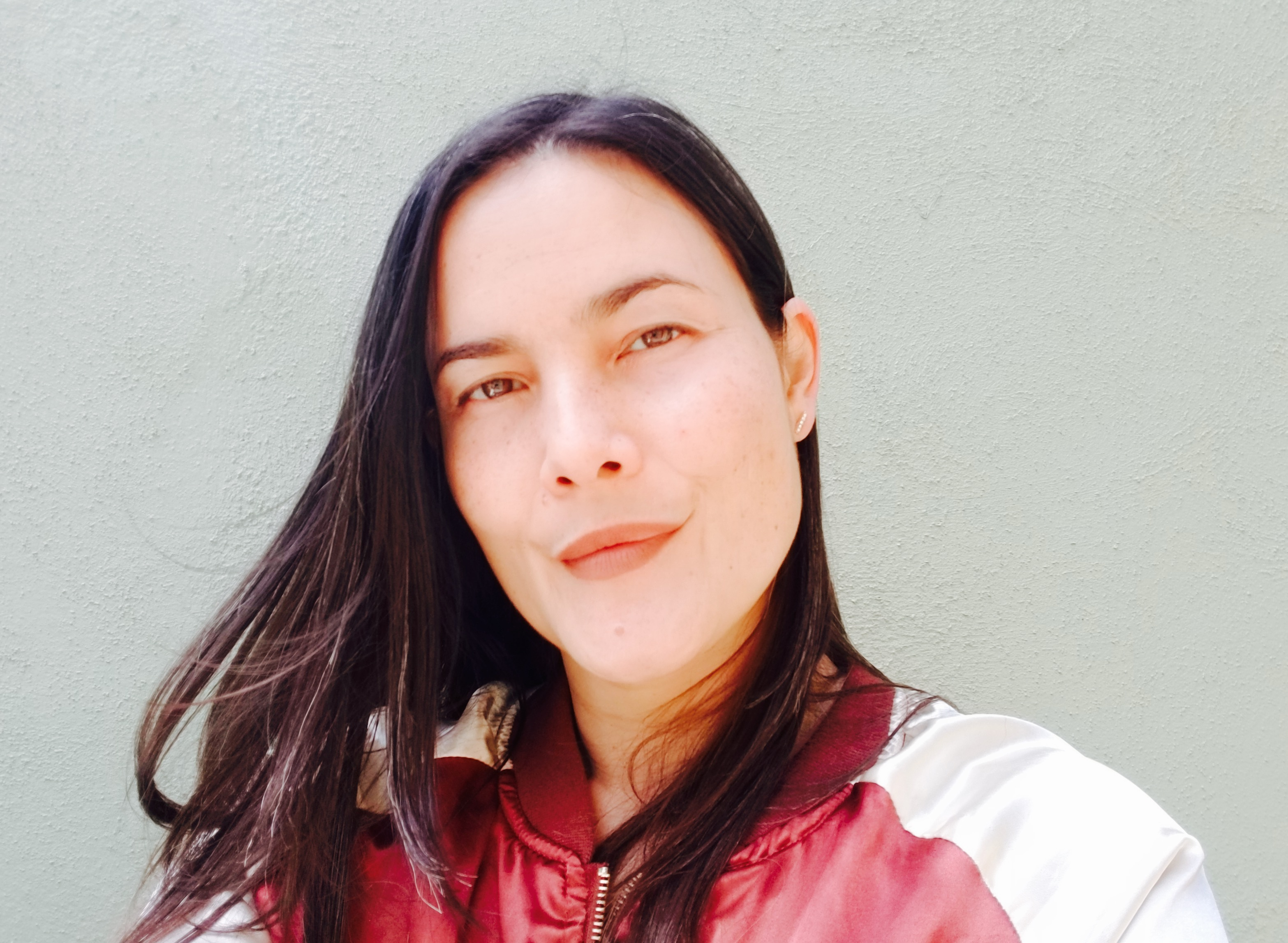 Author Soma Mei Sheng Frazier, East Bay Area, California 2018